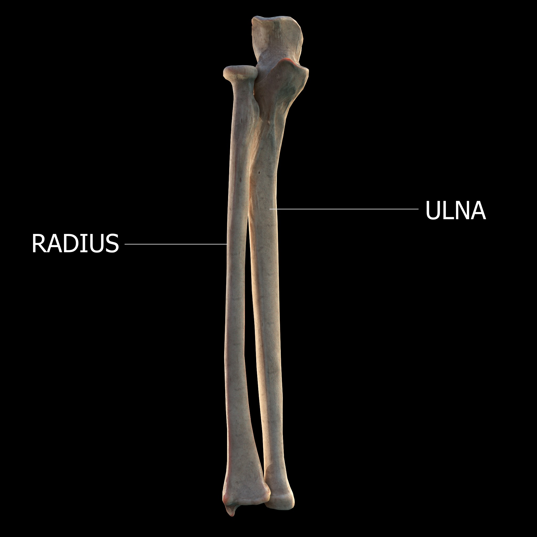 Computer generated imagery of bones of forearm - Radius and Ulna